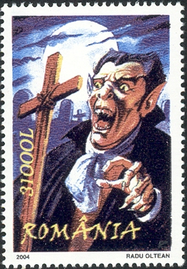 Stamps of Romania, 2004